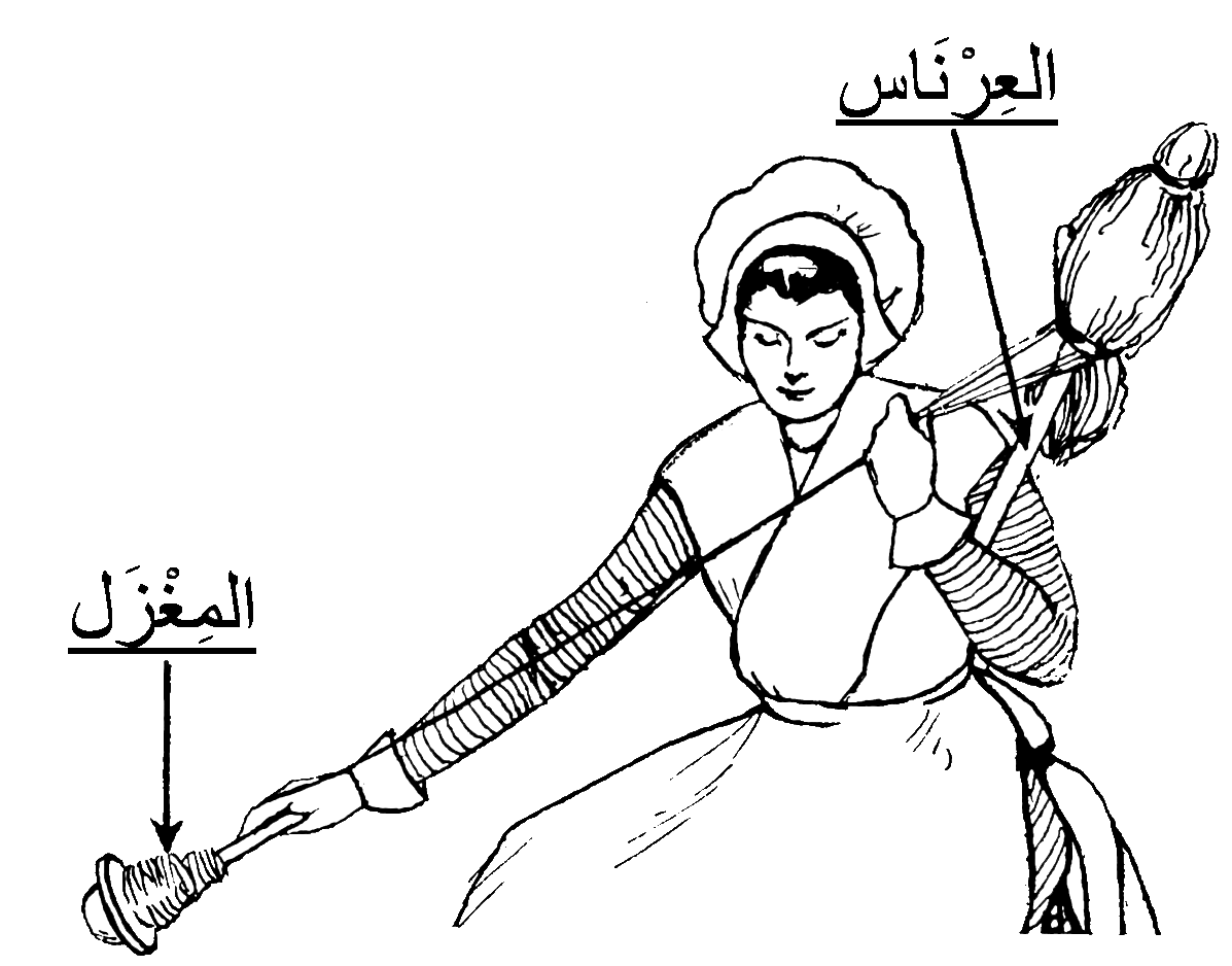 Derived Drawing from Image:Distaff_(PSF).png by Pearson Scott Foresman for Arabic translation Distaff